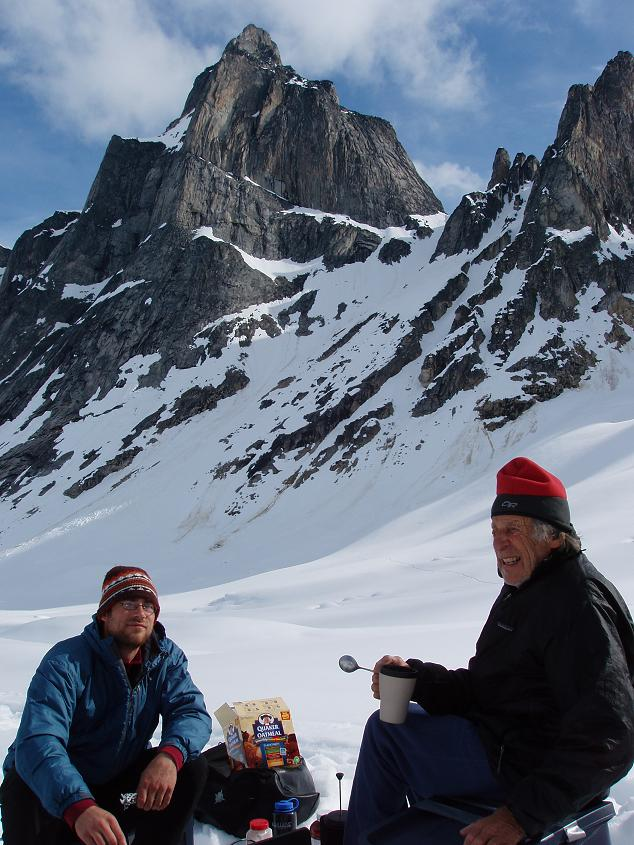 Fred Beckey in the Alaska Range